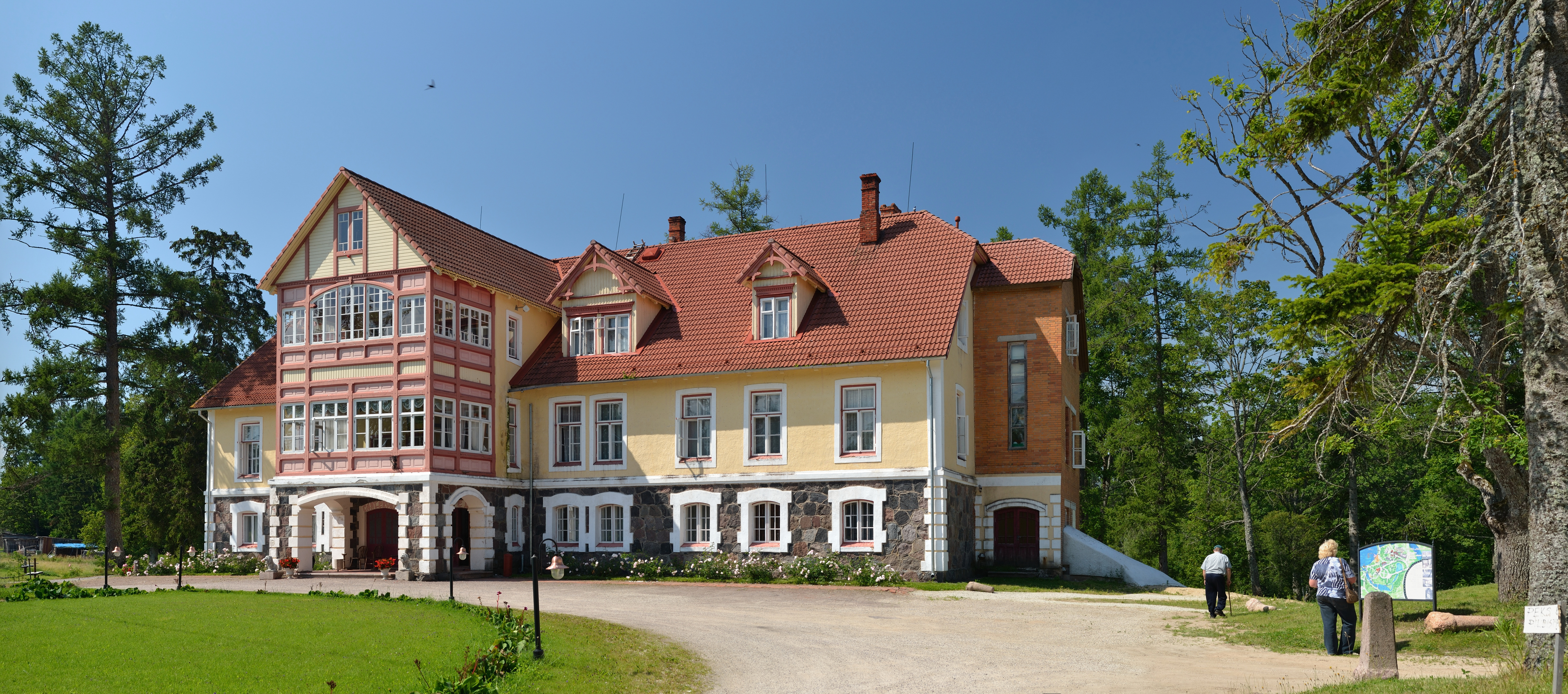 Pikajärve manor main building